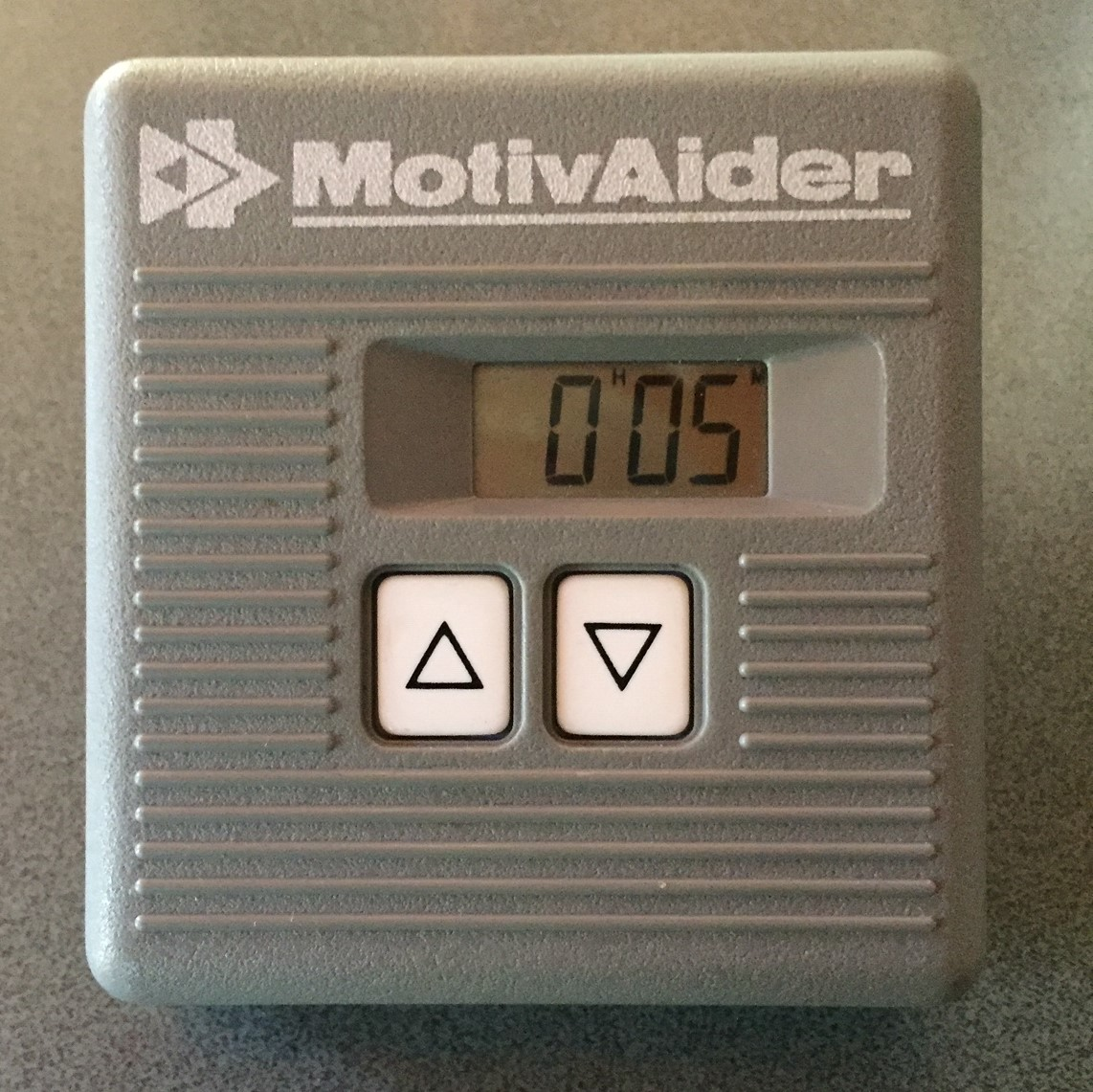 Original first generation MotivAider device by Behavioral Dynamics, Inc. 1988